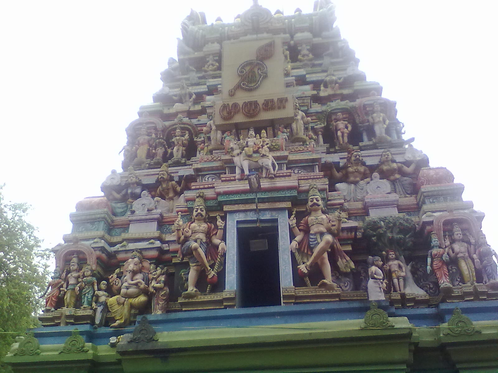 Pazhamudhircholai. This is the 6th house of Arupadai Murugan. This is a hill station and one water falls is located very near to this temple. Regular buses are availbale from Madurai bus stand.